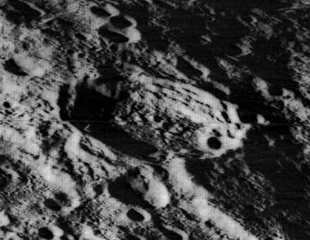 Oblique view of Morse, on the far side of the moon. North at top.